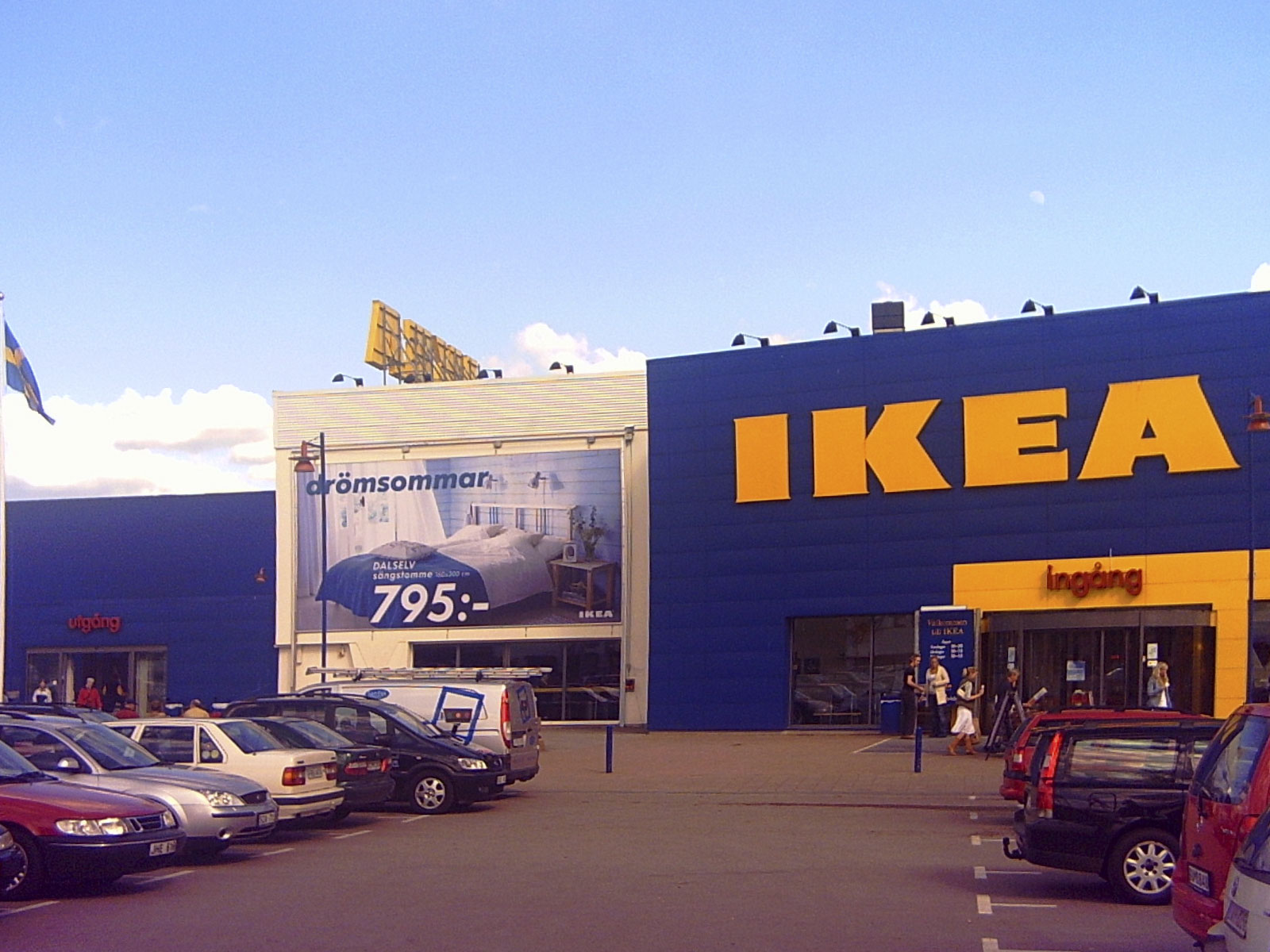 IKEA Headquarters in Älmhult, Sweden